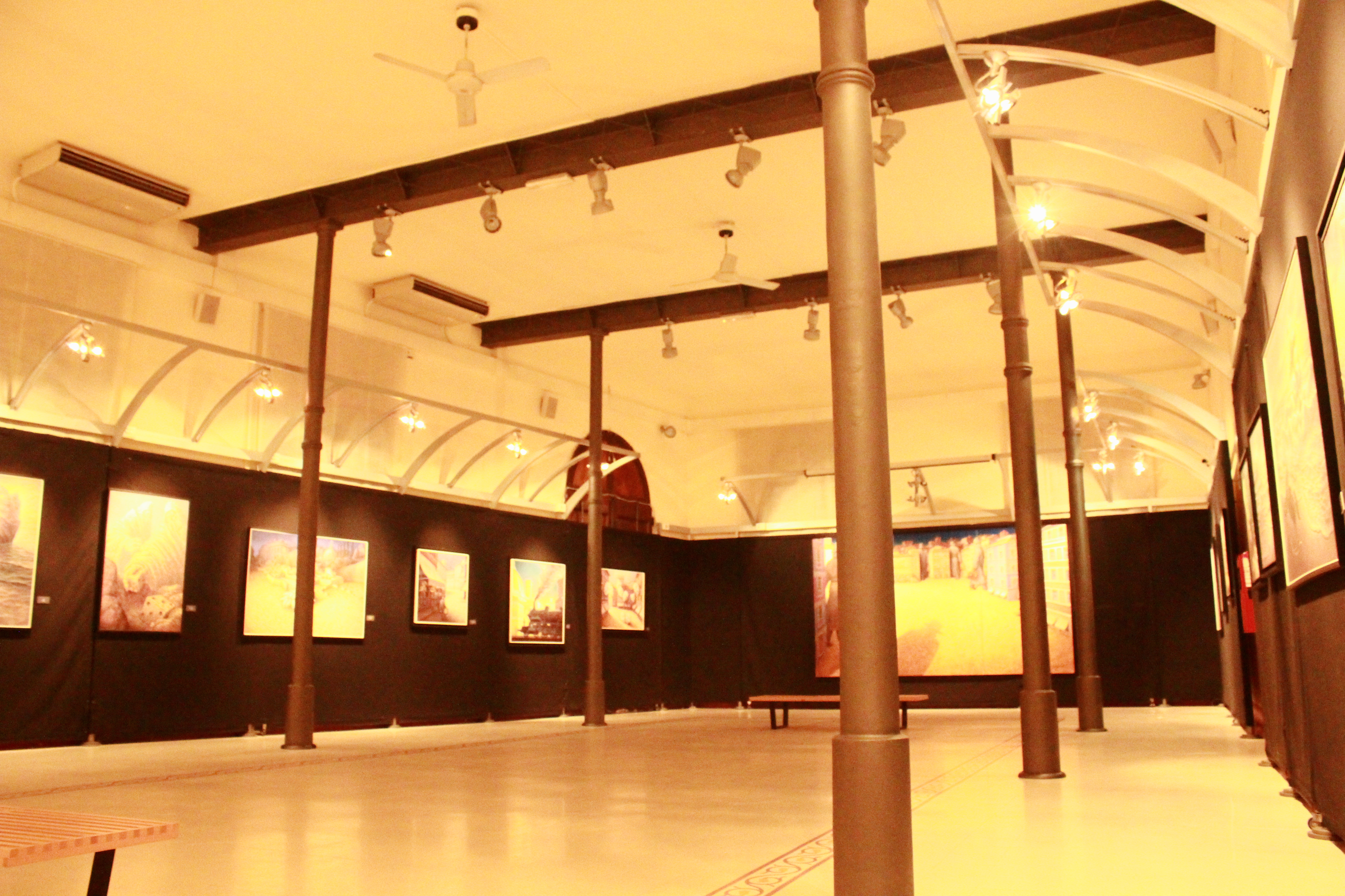 Follonica Art Gallery